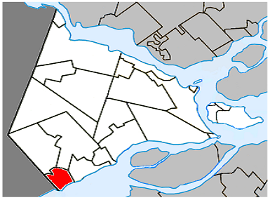 Location of Rivière-Beaudette, Quebec within Vaudreuil-Soulanges Regional County Municipality.